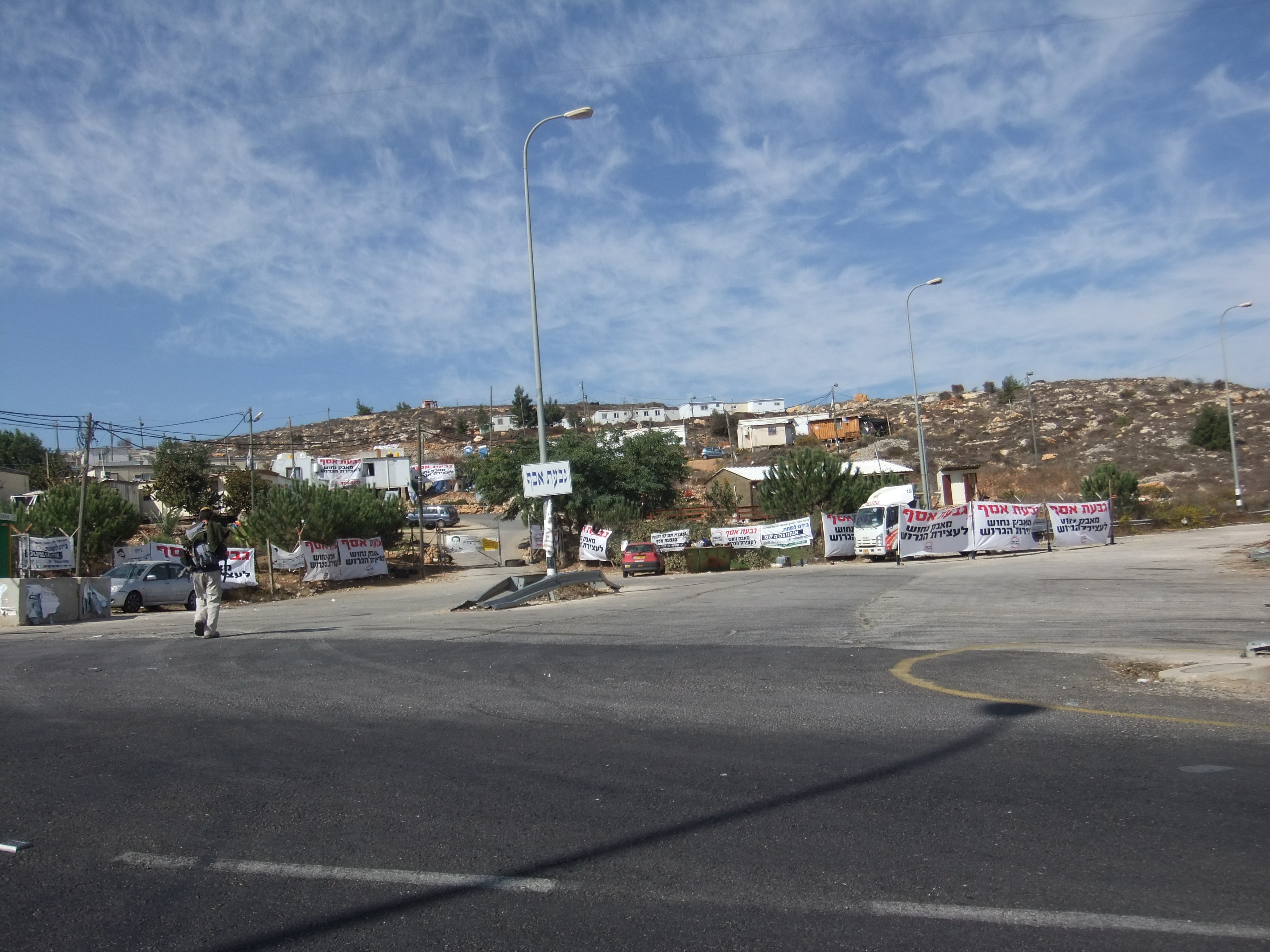 Givat Assaf